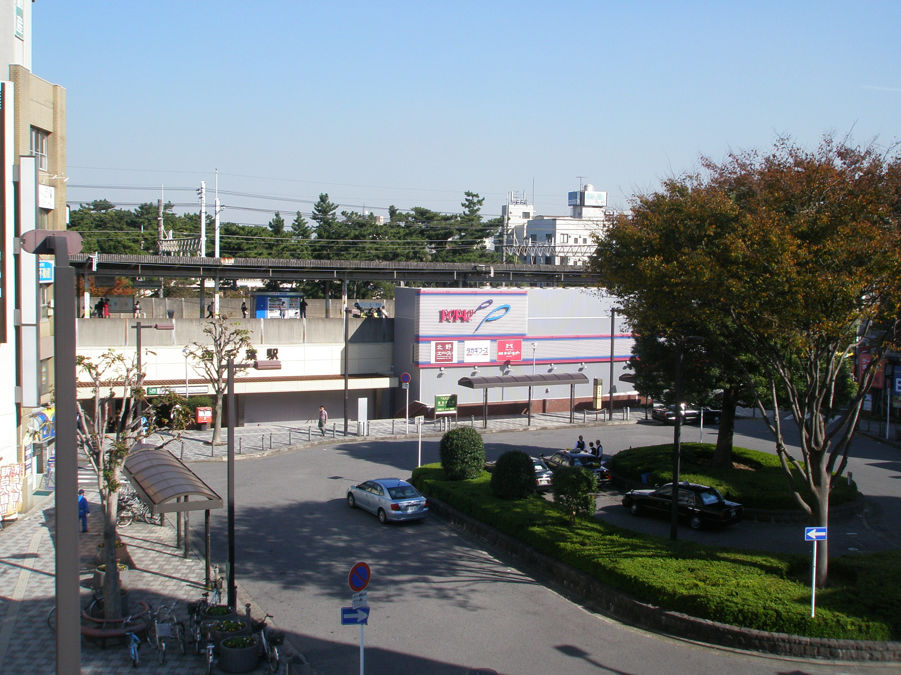 South side square of Nishi-Chiba Station